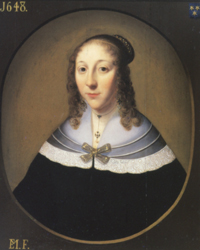 Women's portrait. 1648 EvMF (Eva van Marle fecit)